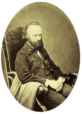 Photograph of the artist, Jacques Guiaud